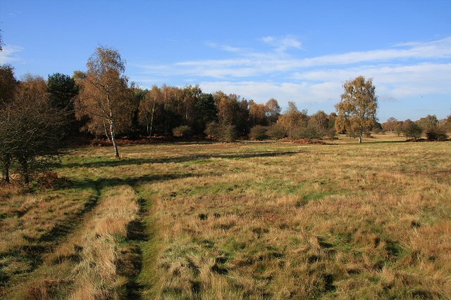 Track to Black Plantation This track on Brettenham Heath leads to a small wood.